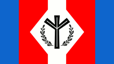 Algiz rune with oak wreath on newer flag variant of the organization National Alliance, USA. The organization exists since 1967.